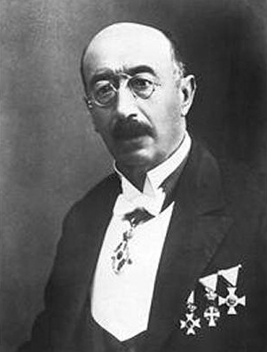 Ioannis N. Svoronos (1863-1922), greek numismatic scholar.